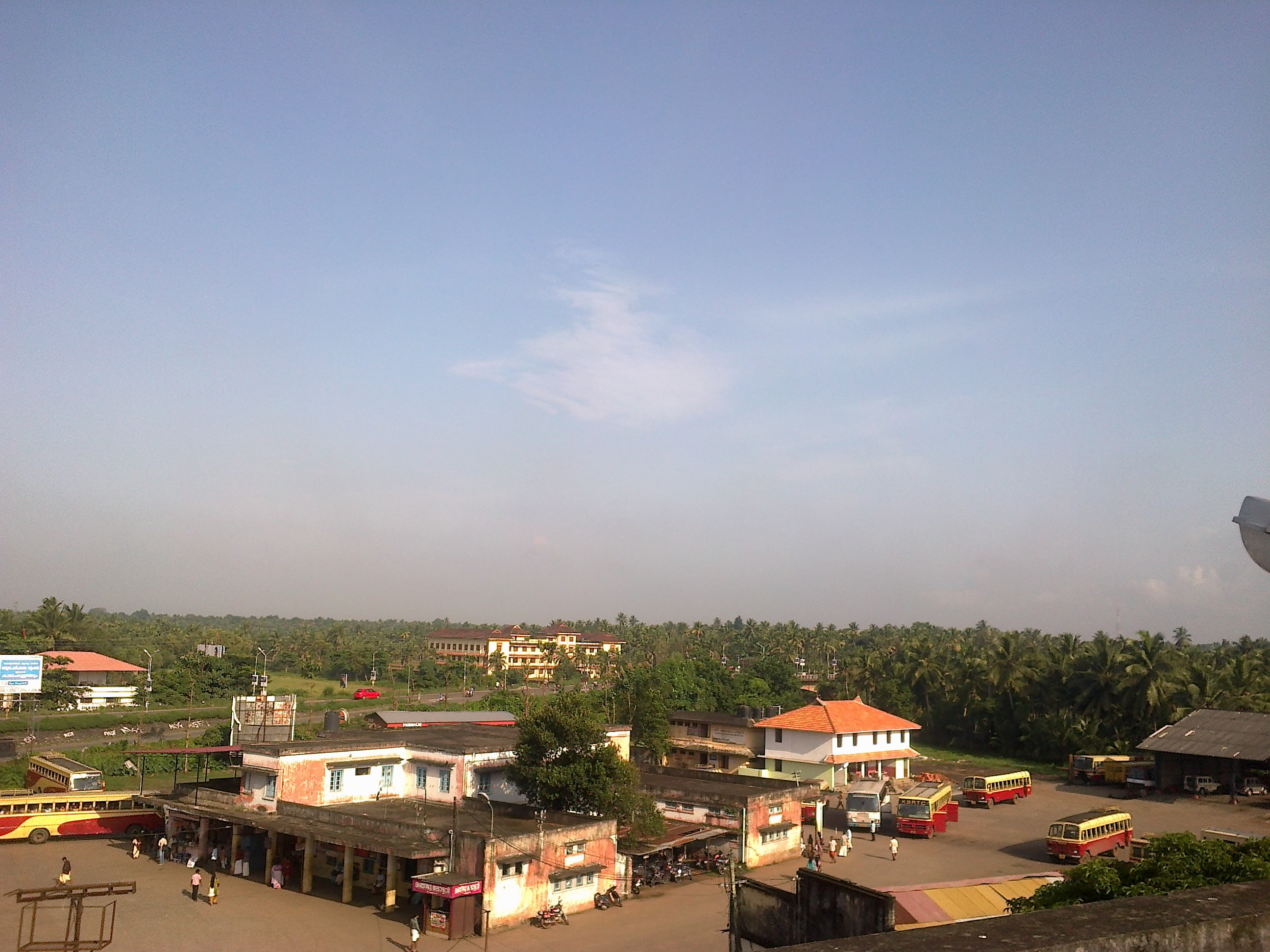 Kayamkulam KSRTC Bus stand, Women's Polytechnic College